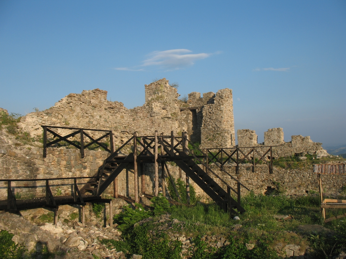 Koznik fortress above Rasina river on Kopaonik slopes,near Brus, Serbia.